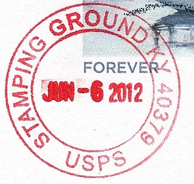 scanned correspondence